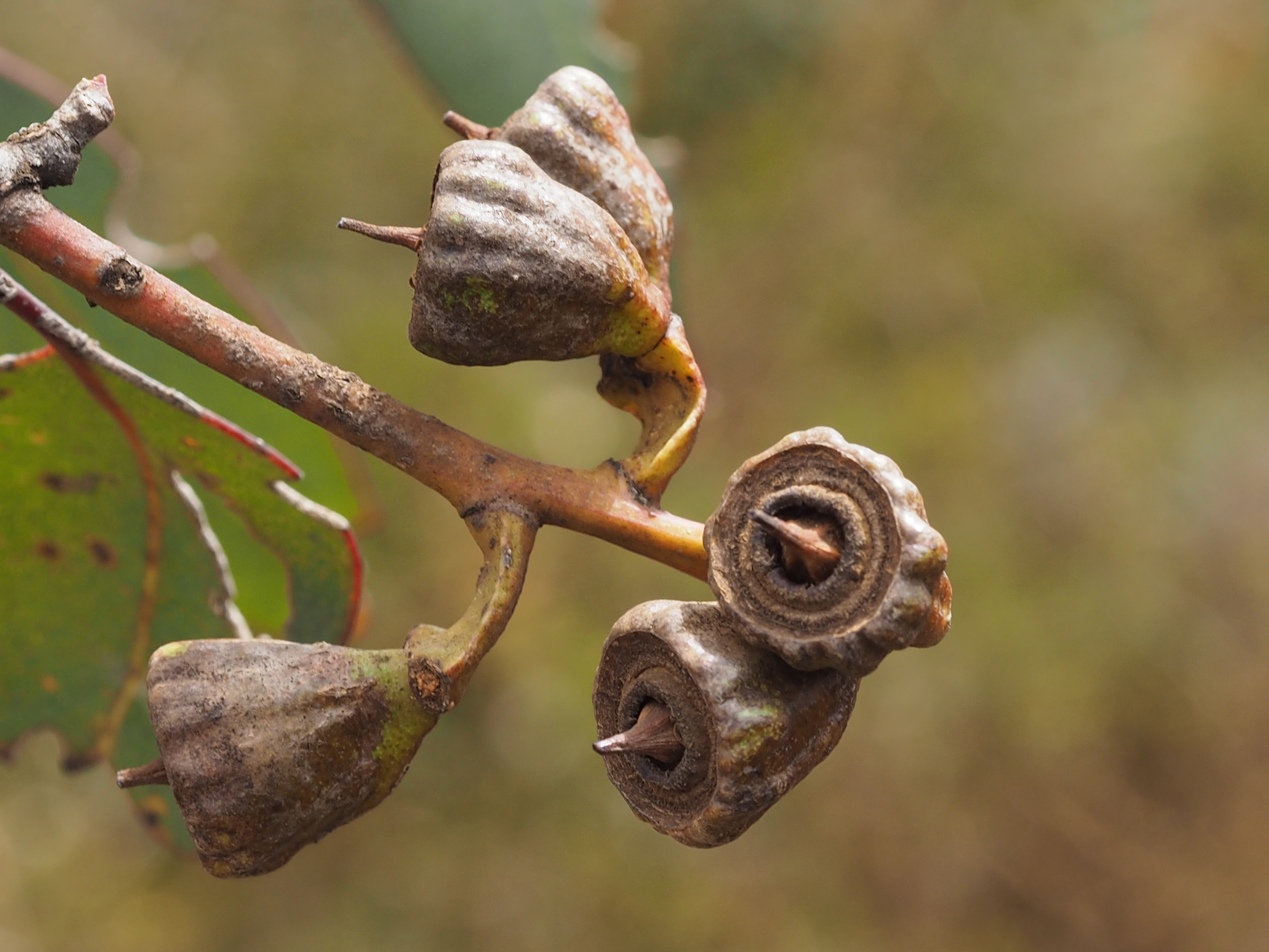 Fruit of Eucalyptus kessellii subsp. kessellii in the Mount Burdett Nature Reserve, north east of Esperance, W.A.